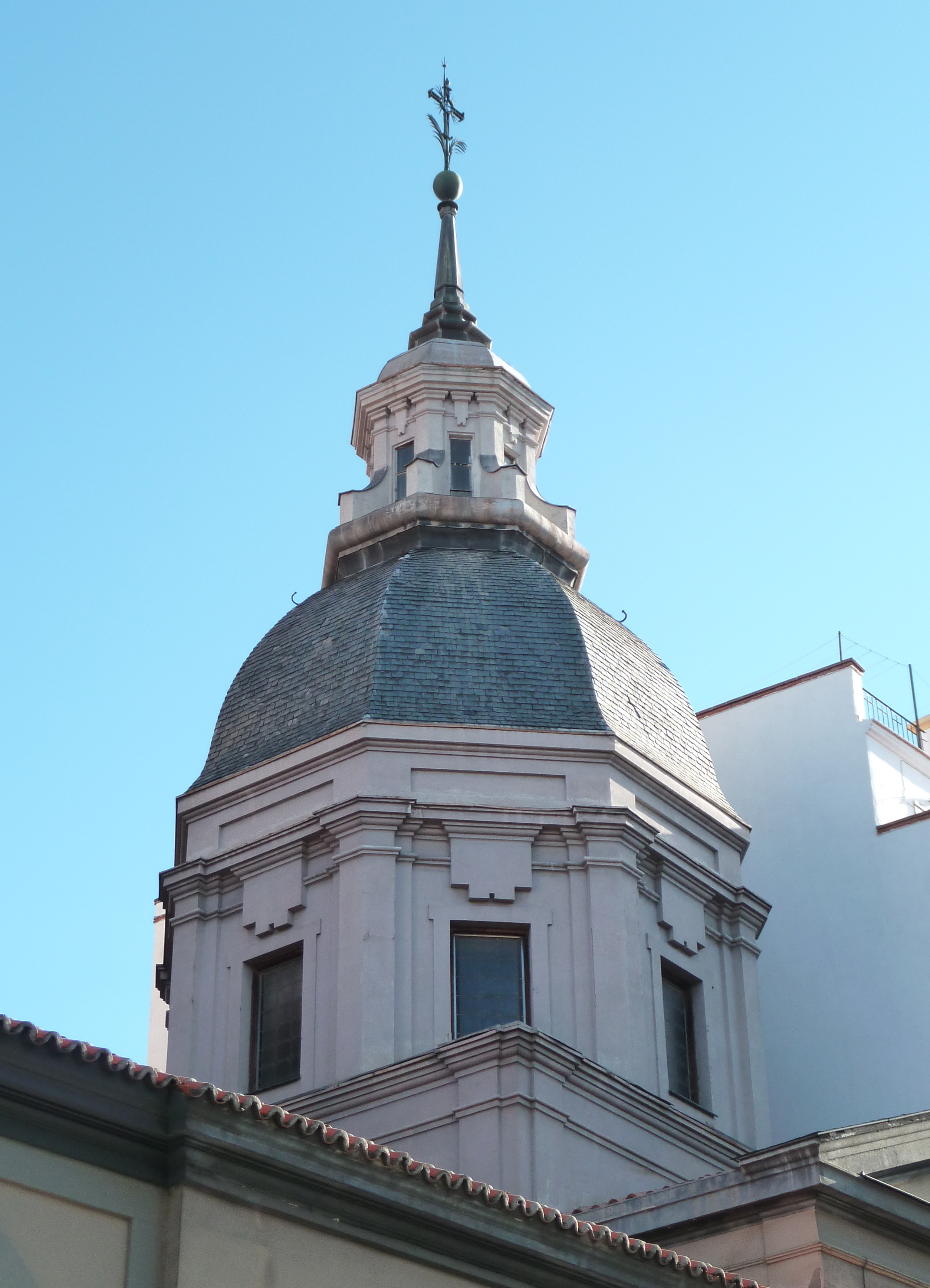 A dome of Saint Sebastian Church in Madrid (Spain).